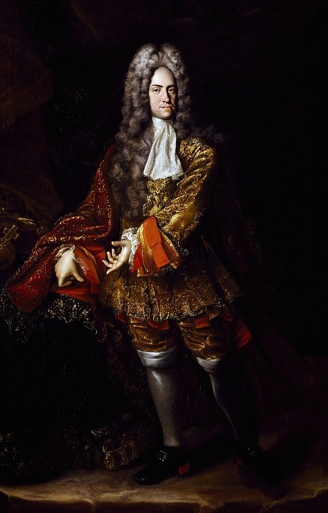 Charles VI, Holy Roman Emperor